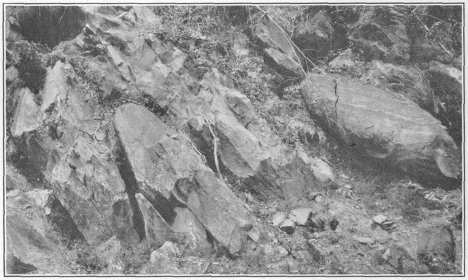 Figure caption: Closely folded Antietam Schist, roadcut on east side of Oak Hill. The folded bedding is outlined by quartz veins and cut at a steep angle by schistosity dipping northwest. Description of the photo from the text of the Bulletin: (The outcrop)...on the southwest limb of the Oak Hill anticline shows northwest schistosity brought out by weathering across the crumpled bedding outlined by quartz injection, which may be related in origin to the post-Cambrian batholith.